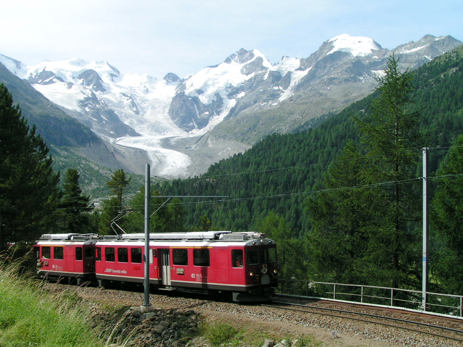 Train of Rhätische Bahn on the Bernina line, with the Morteratsch Glacier in the background.